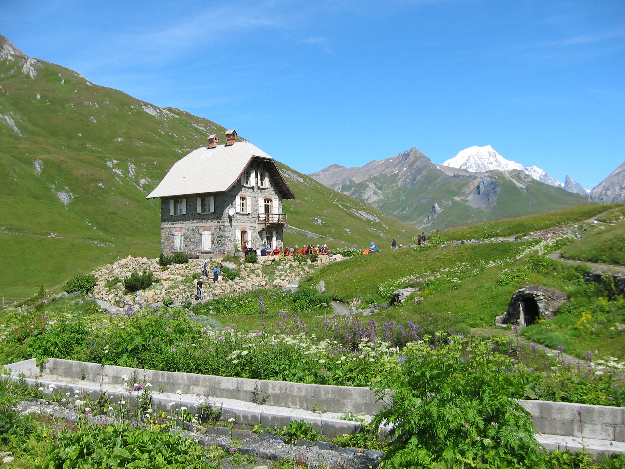 Chanousia botanic garden